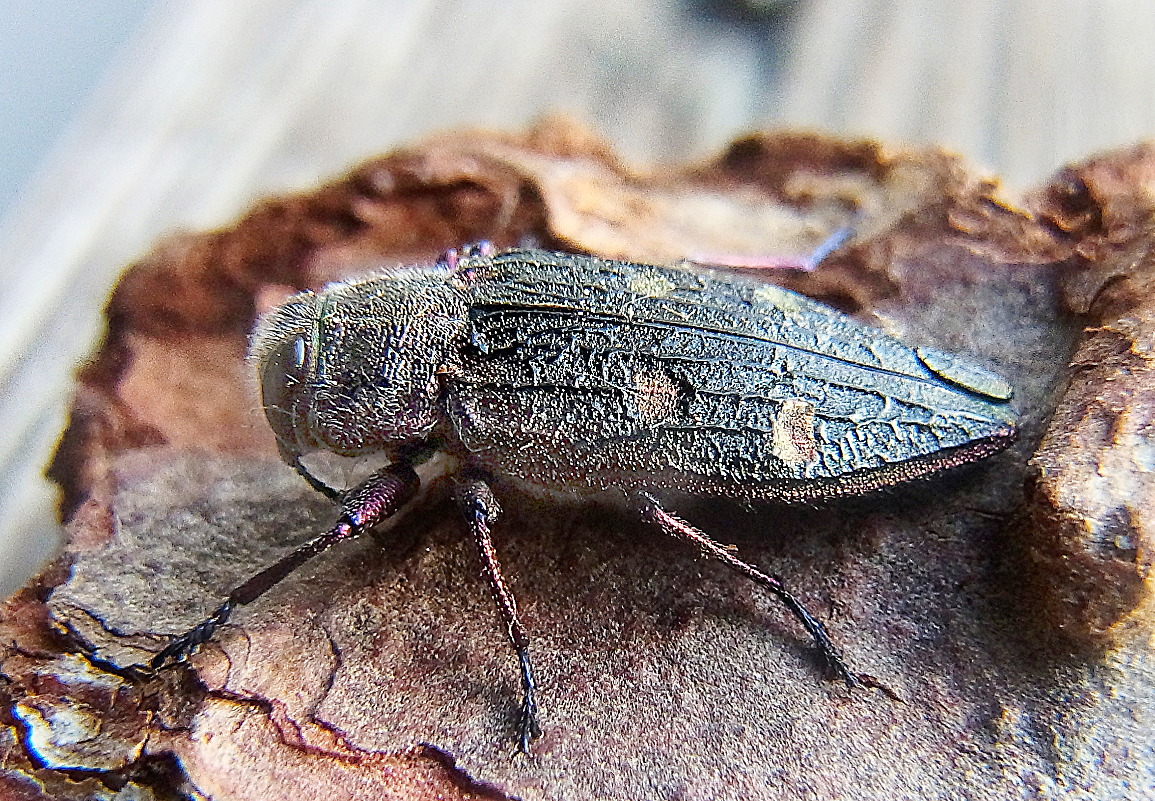 Chrysobothris chrysostigma from Austria, Gerlospass ca 1530 m at cut Picea